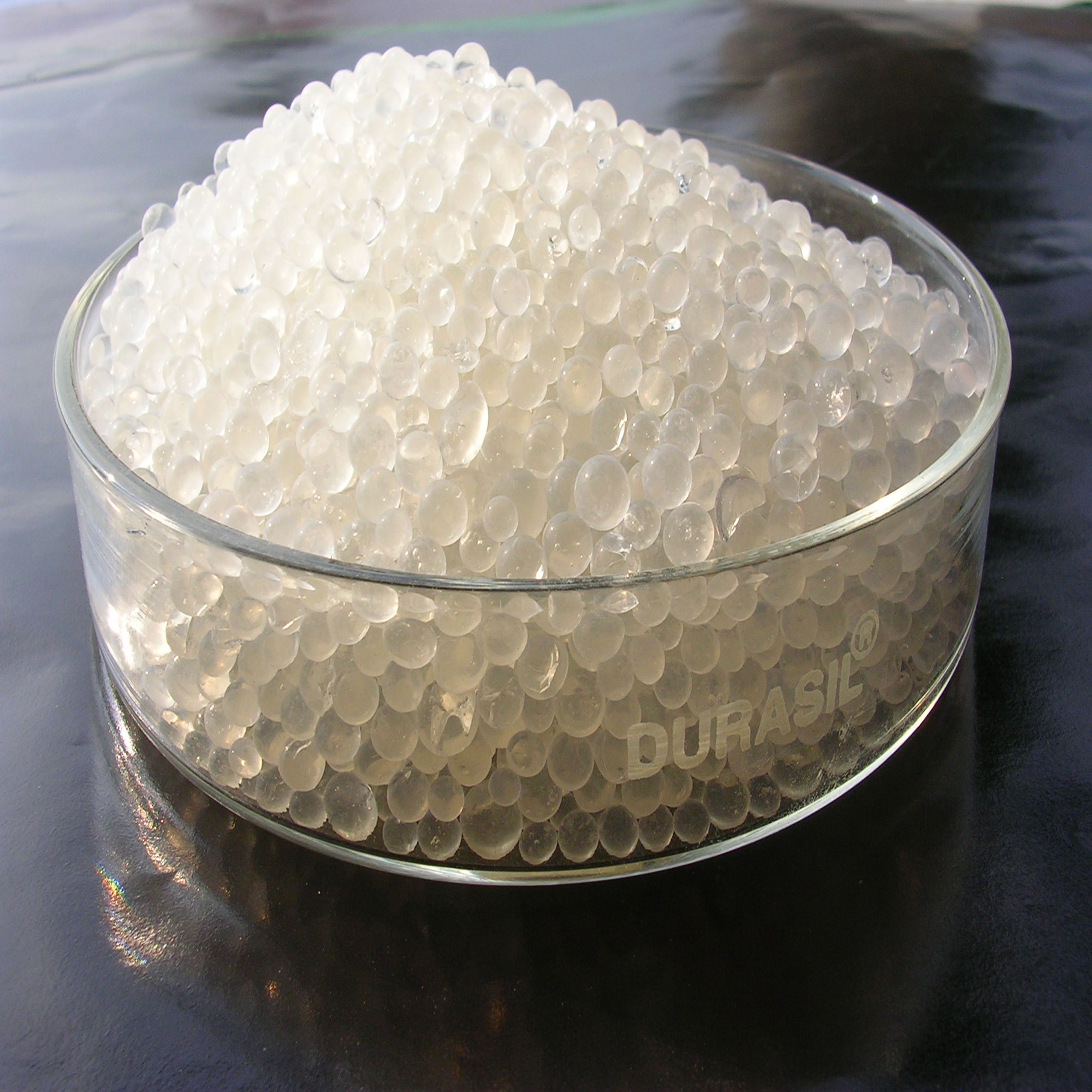 White Silica Gel use for Moisture Absorber Desiccants